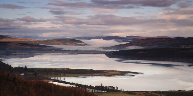 Kyle of Sutherland from Struie Hill viewpoint. Ben Mor Assynt obscured by low cloud.